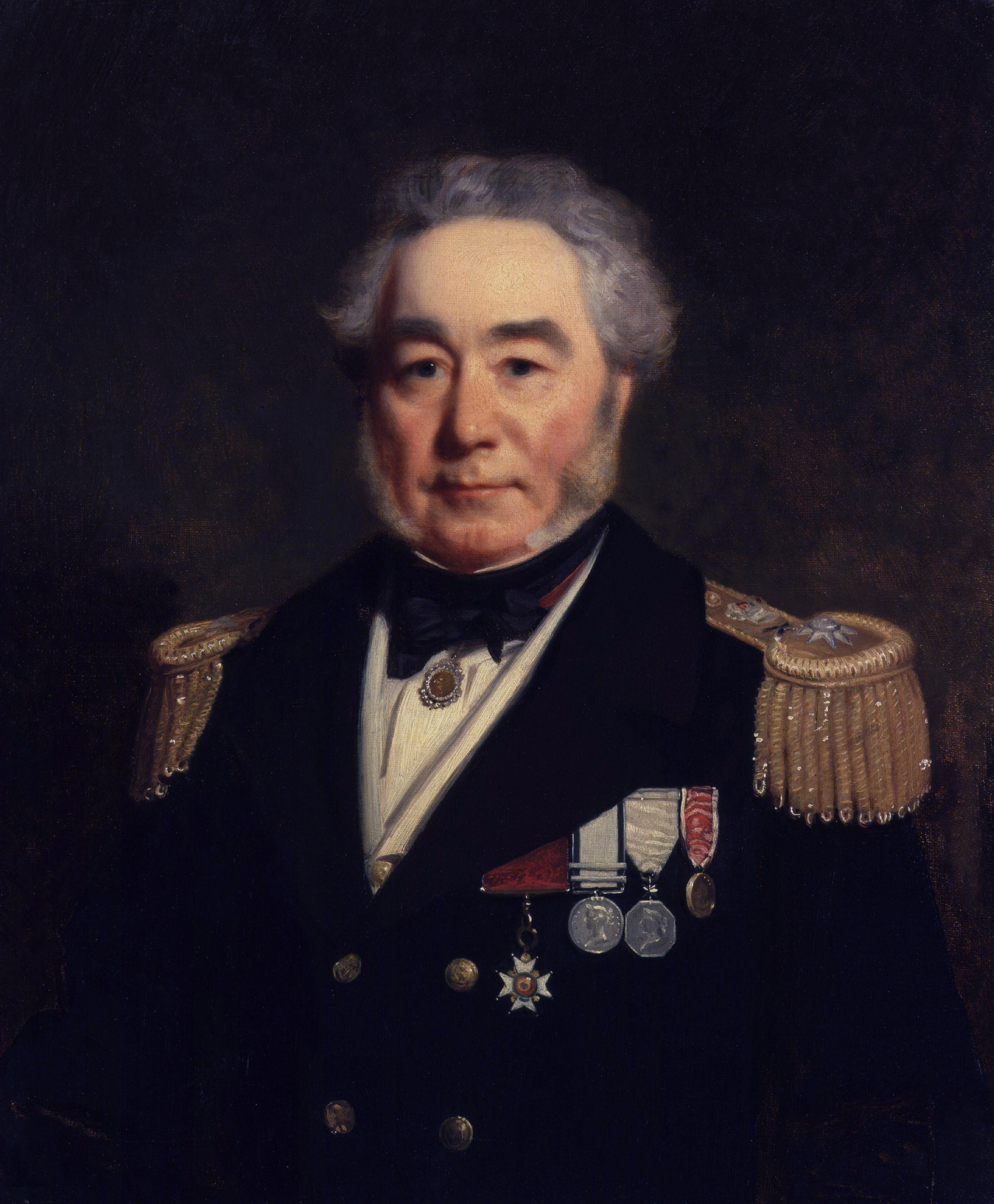 Sir Horatio Thomas Austin, by Stephen Pearce (died 1904). All images in this batch have been confirmed as author died before 1939 according to the official death date listed by the NPG.